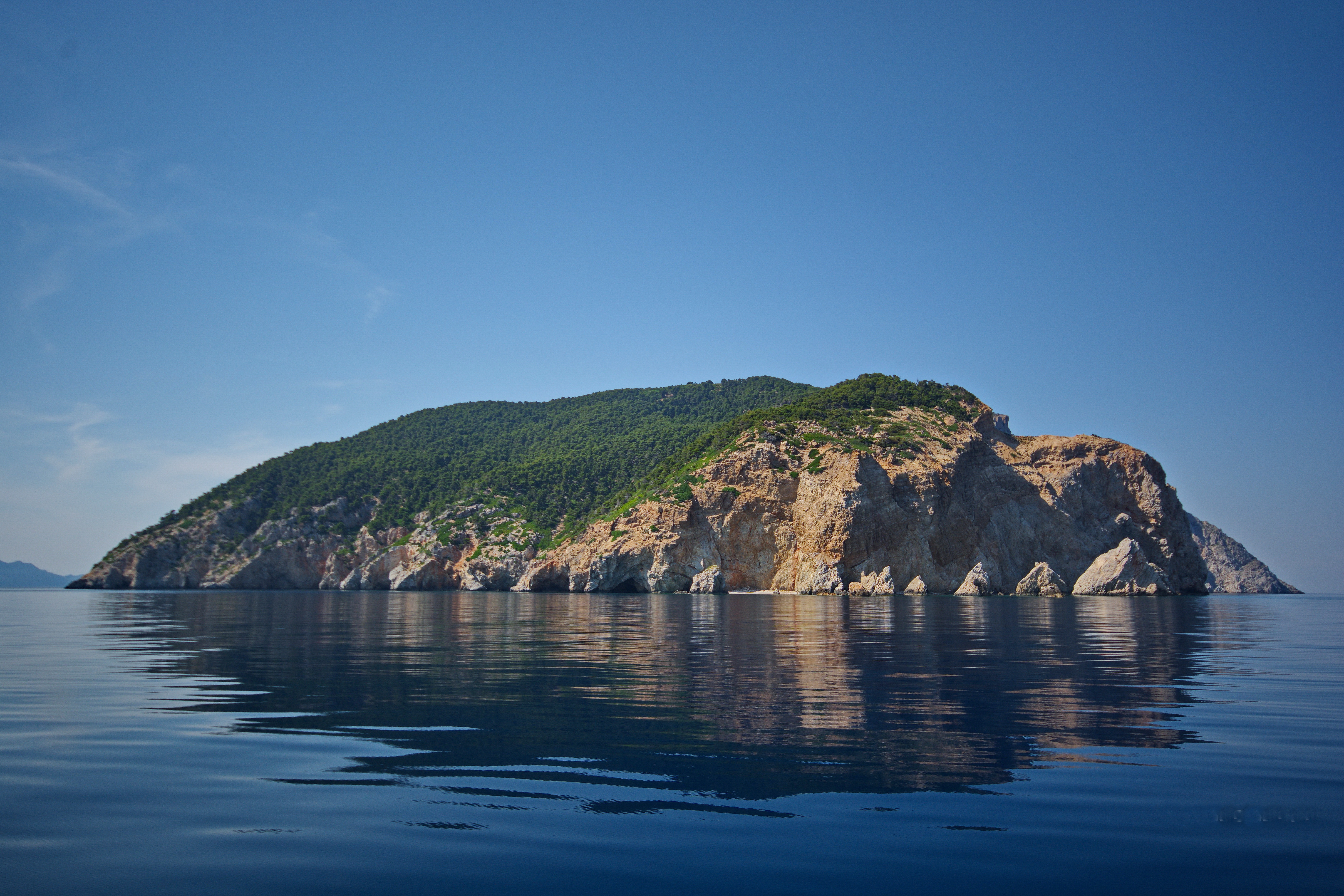 Νήσος Πιπέρι Βορείων Σποράδων This is a photography of Natura 2000 protected area with ID GR1430005